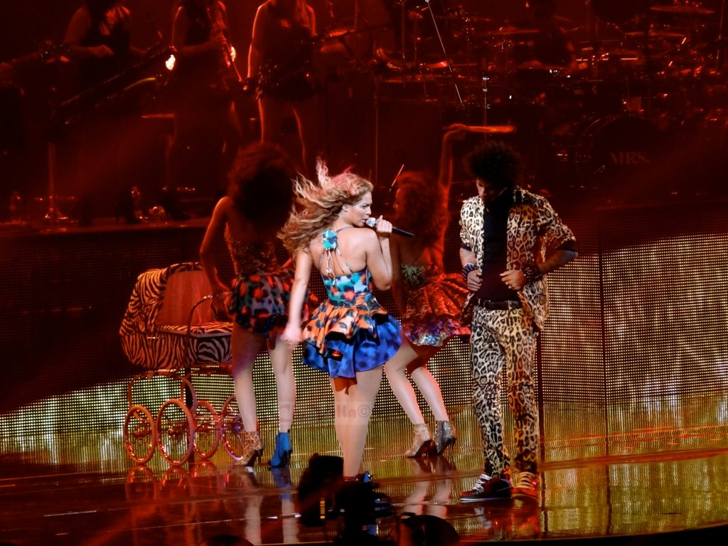 Beyonce performing "Grown Woman" live in Montreal in 2013 during The Mrs. Carter Show World Tour.